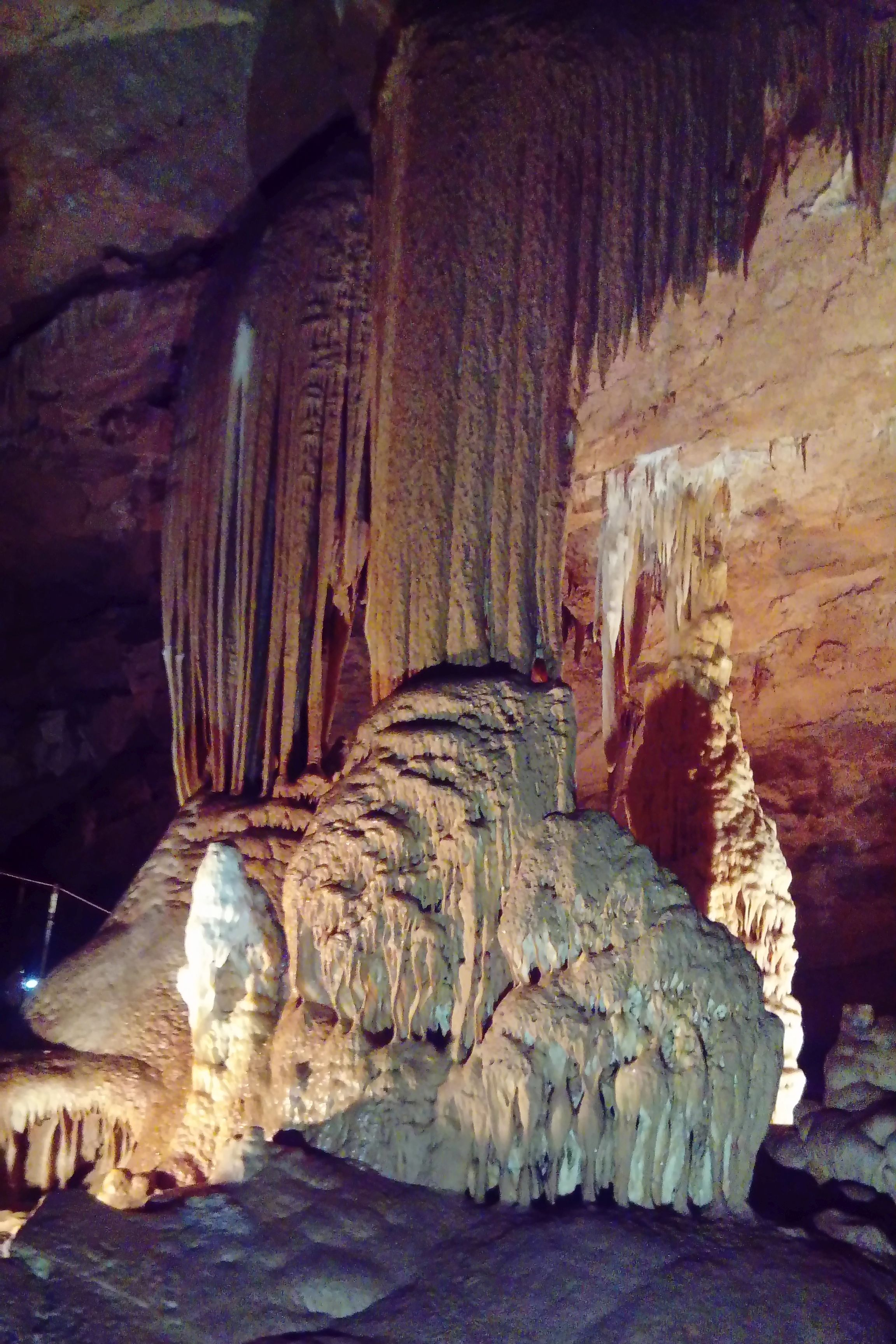 Mayor Cave formed below the sea level approx. 230–175 million years ago. It was discovered in 1926 by the then Mayor Josip Perme. It consists of eight caverns. An artificial passage connects it with the Ice Cave. The latter, which was described already in the 17th century by the polymath Valvasor, features ice stalagmites in late winter. Two stalagnates, named King Matthias's Throne.